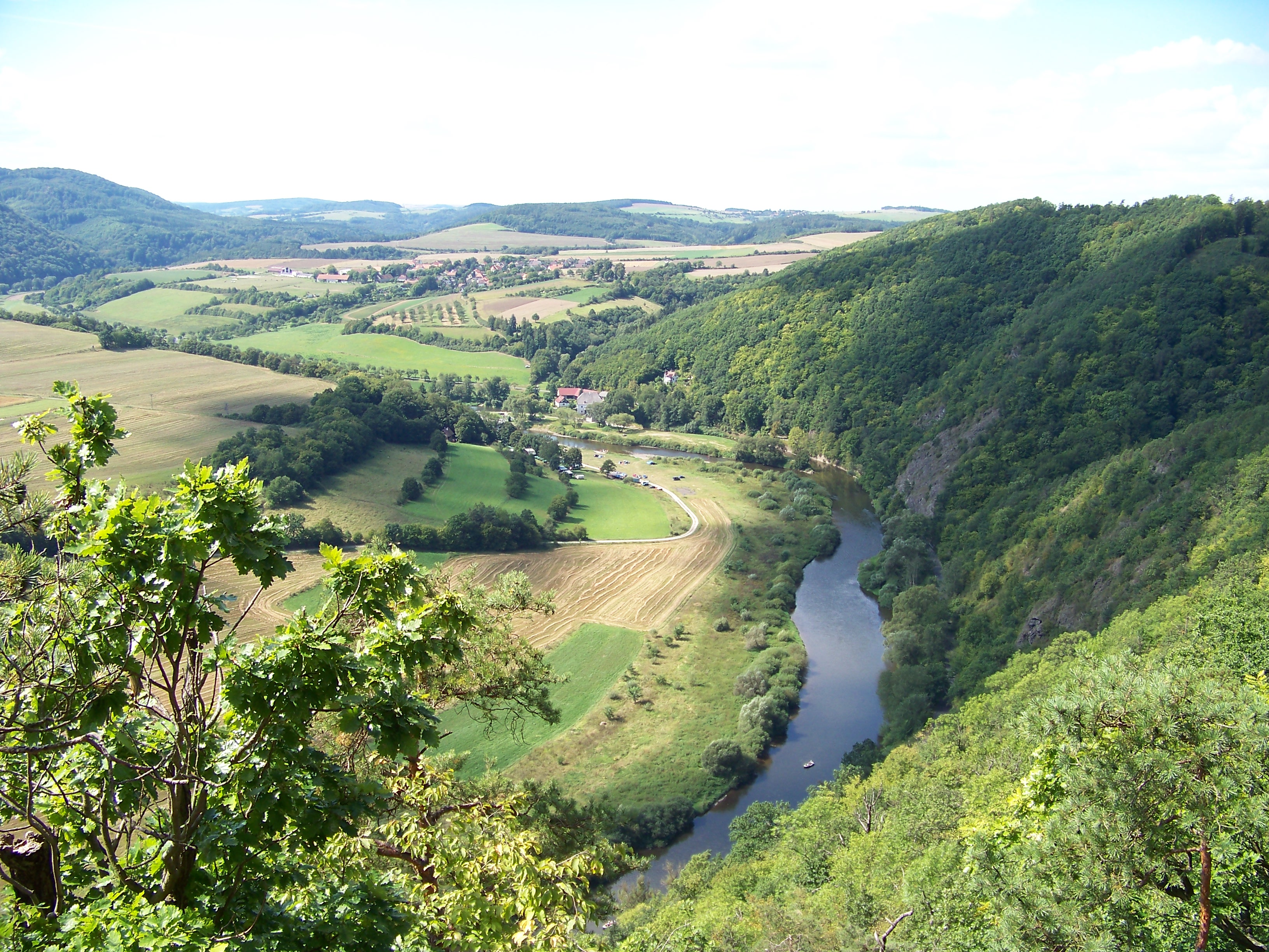 Rakovník District, Central Bohemian Region, the Czech Republic. Views of Nezabudice and camp of Branov from Nezabudice Rocks.